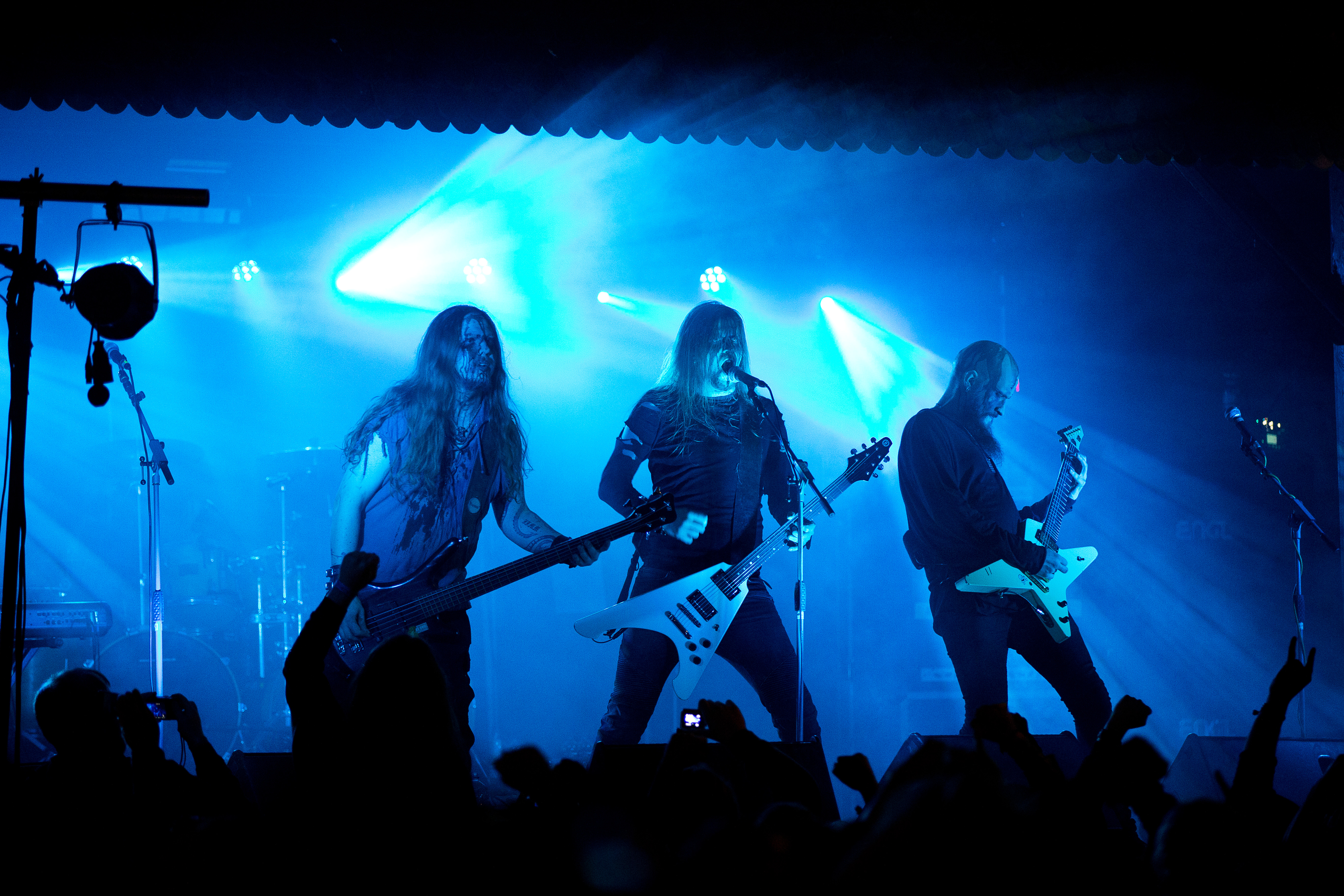 The Finnish pagan metal band Moonsorrow at the Dark Troll Open Air 2016 in Bornstedt/Germany.